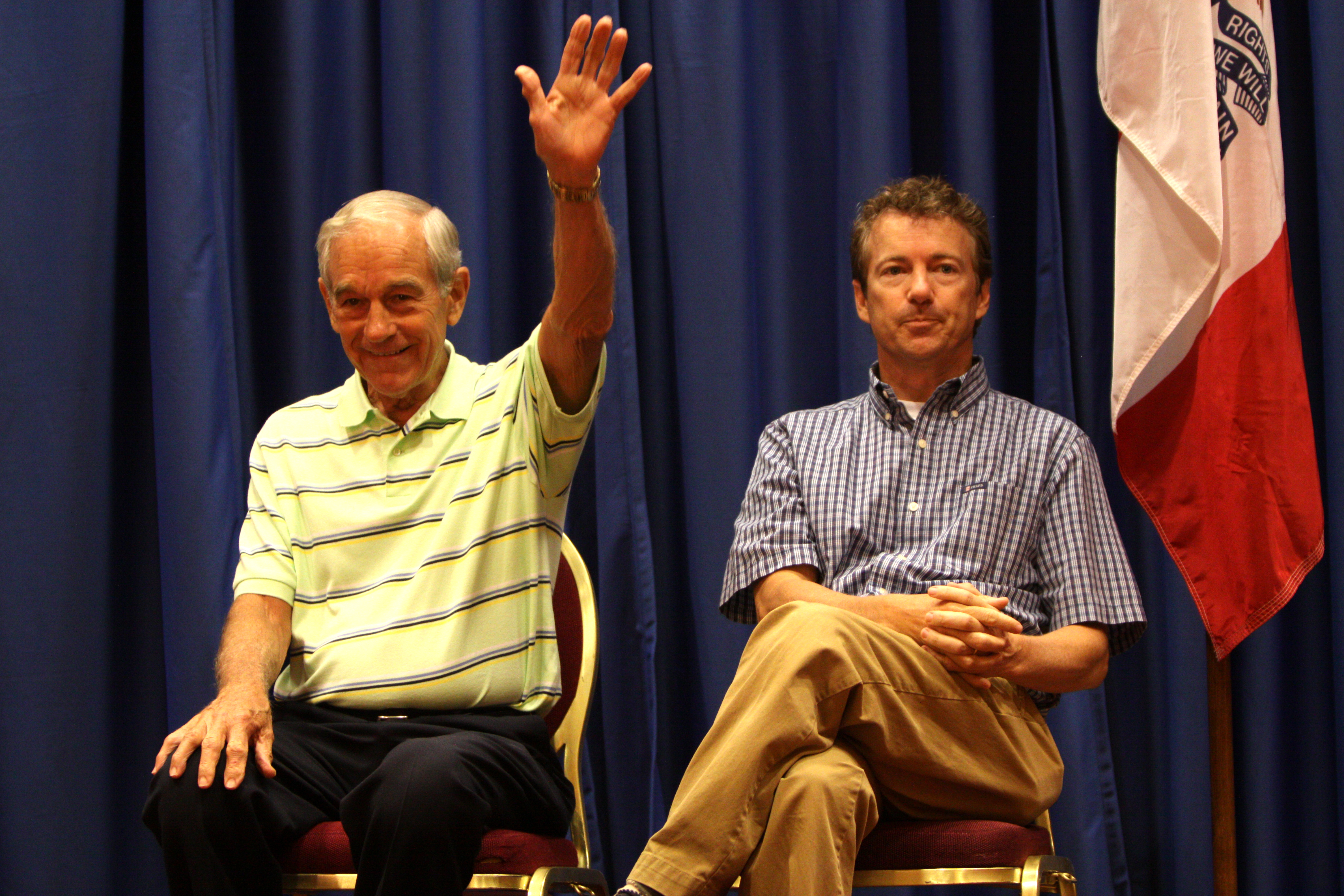 Ron Paul and Rand Paul at a campaign stop in Des Moines, Iowa, ahead of the Ames Straw Poll.